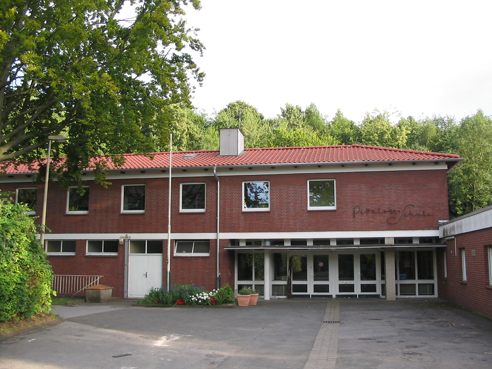 Pestalozzi School Witten